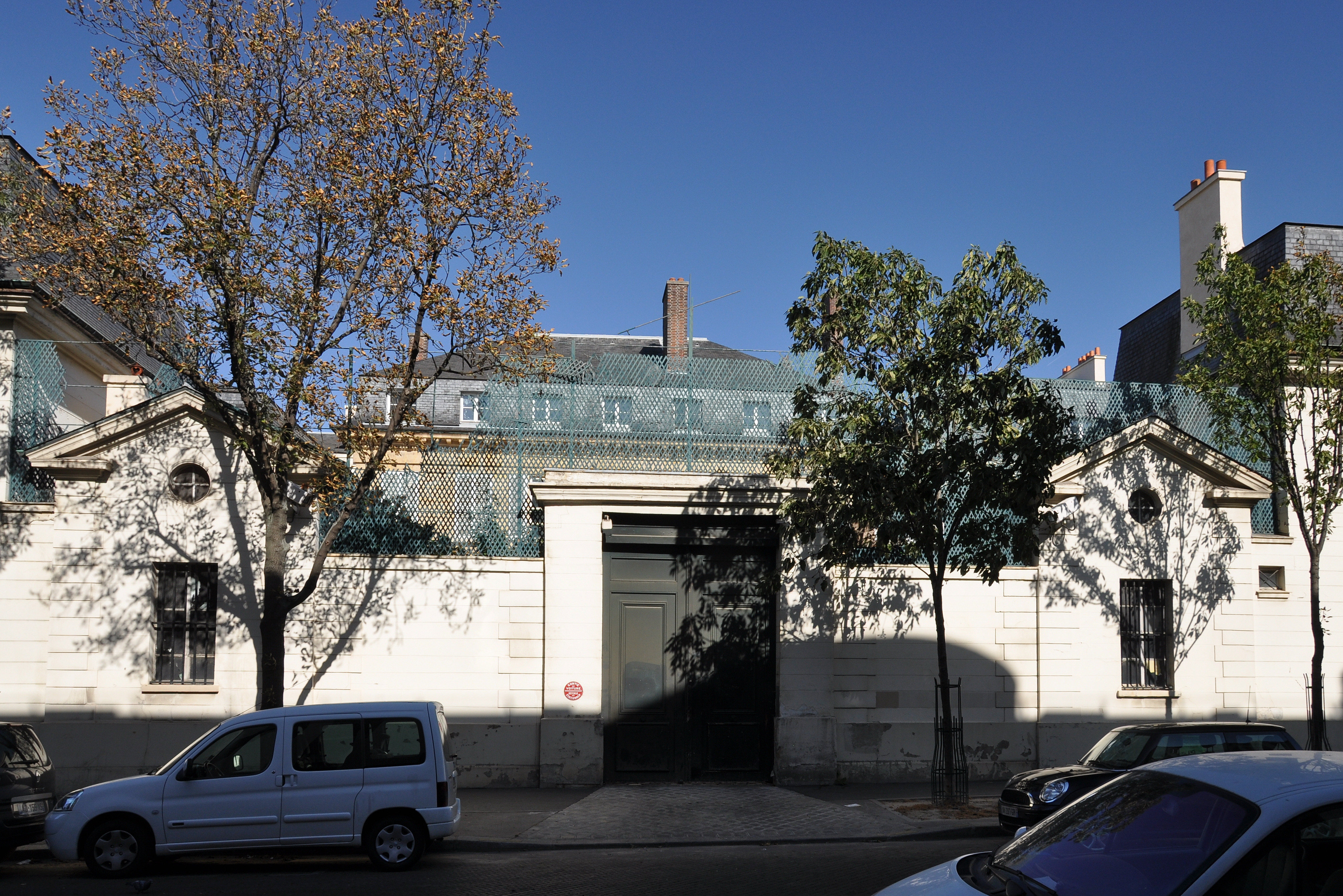 Hôtel de Beaumont (formely Hôtel de Masseran) located at 11 rue Masseran in the 7th arrondissement of Paris in France. The building is registred as historical monument by the French Ministry of Culture.